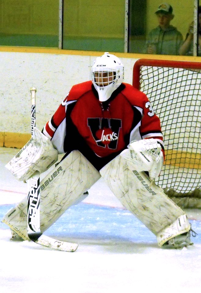 These images of OHA Jr. C action during the 2014-15 season are taken by Devan Mighton.